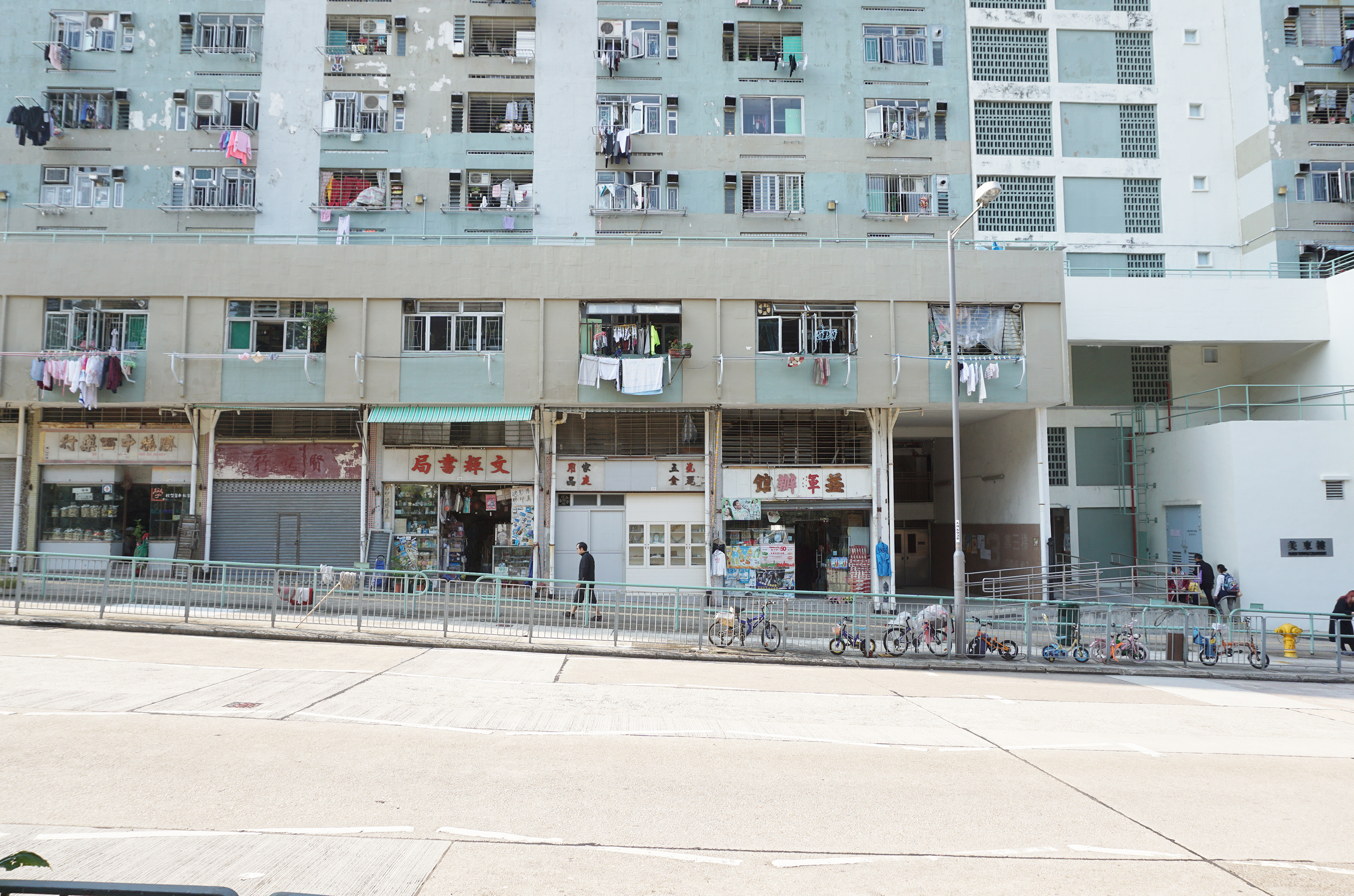 Mei Tung Estate in Kowloon City, Hong Kong.